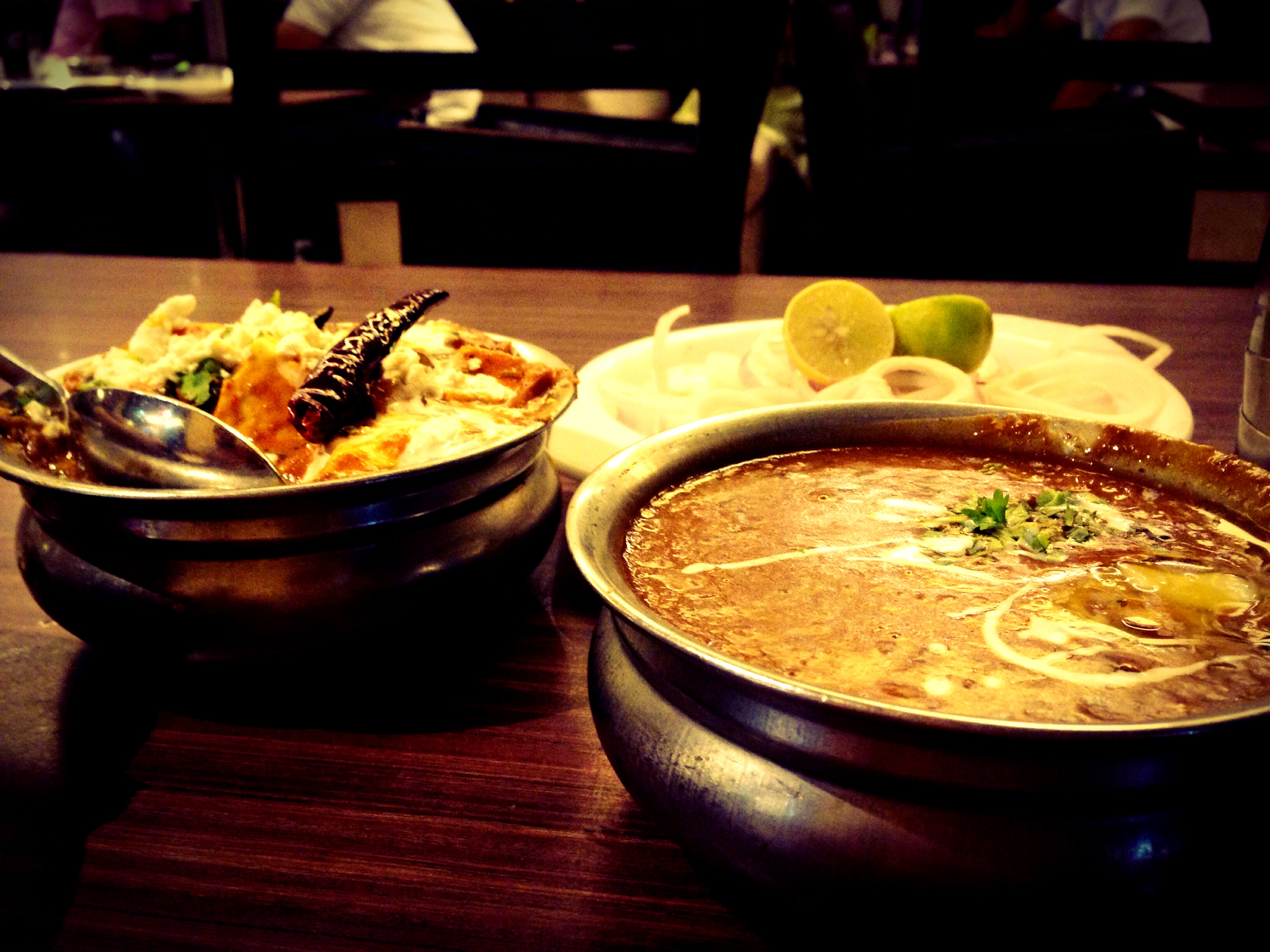 This pic was taken at one of my favorite places to eat. In this pic we have Dal Makhni & Shahi Paneer. Both famous dishes in North India.